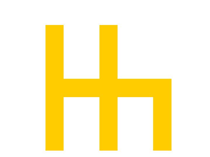 Mark of Ww2 GermanDivision Panzer 7 - 1941-1945 - Variant